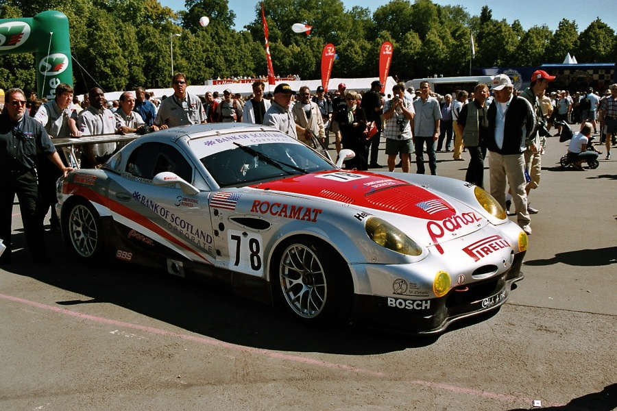 Pictures from the 24 Hours of Le Mans 2005 Scruteneering Session